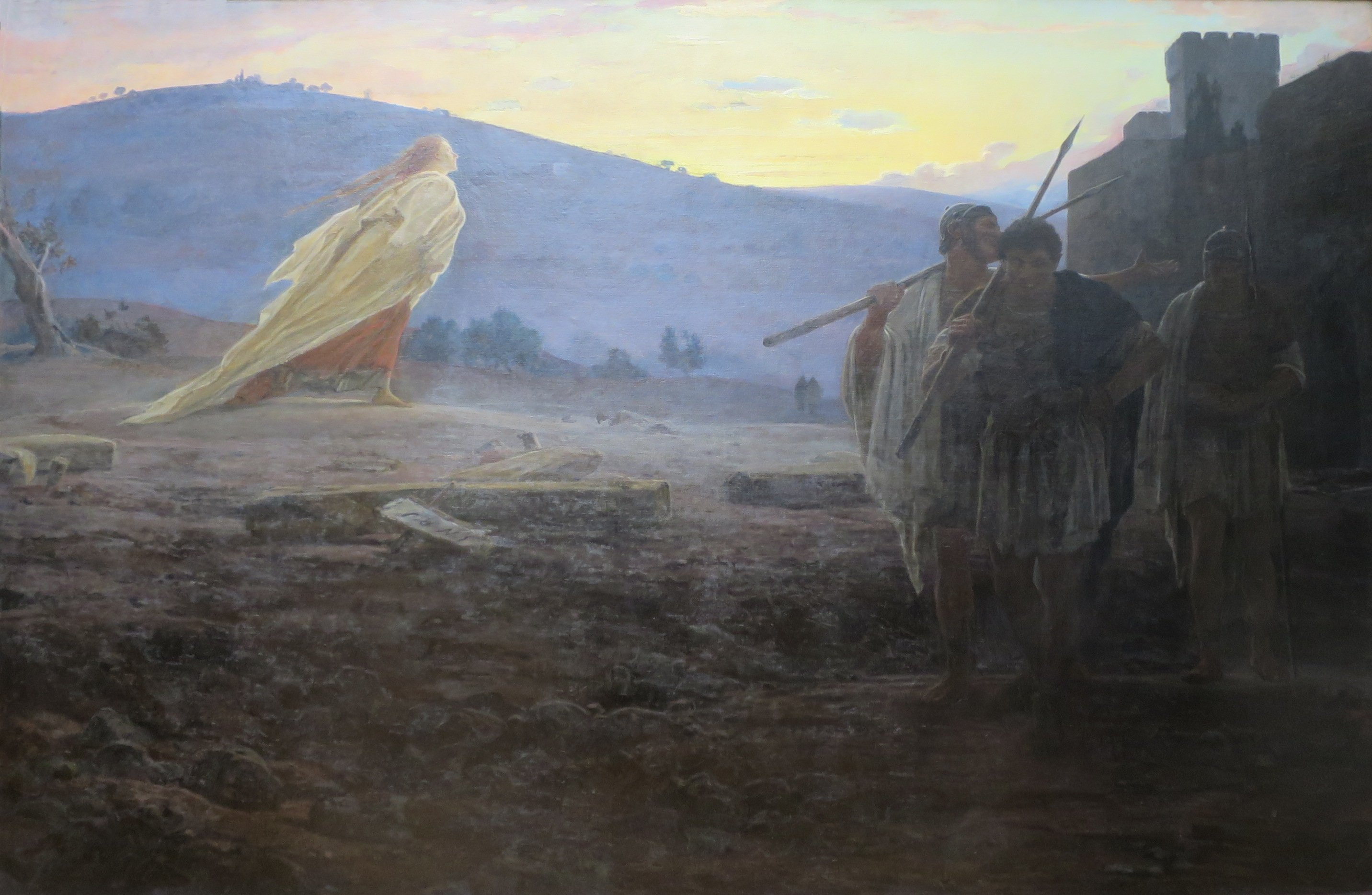 Heralds of the Resurrection by Nikolay Ghe, 1867, Tretyakov Gallery